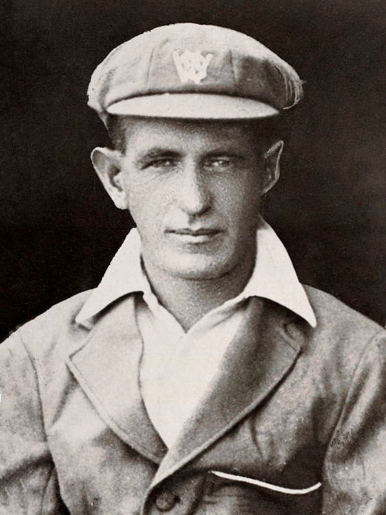 A vintage cigarette card featuring cricketer Herbie Collins of New South Wales, circa 1920.